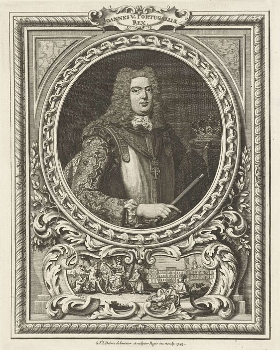 Portraitof King John V of Portugal (1689-1750)